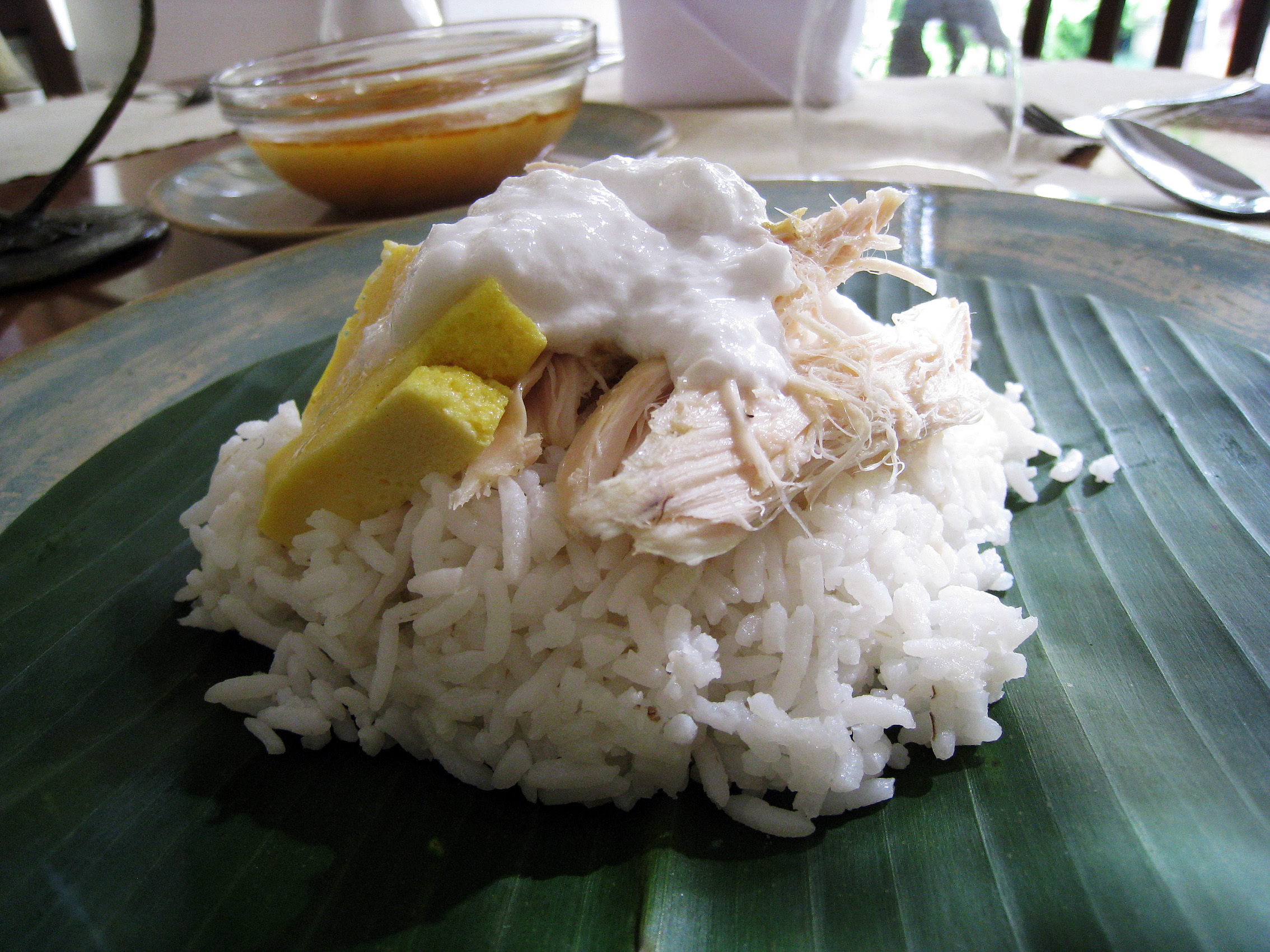 Nasi Liwet, rice with rich coconut milk, chicken and egg, a specialty of Solo (Surakarta) city, Central Java.